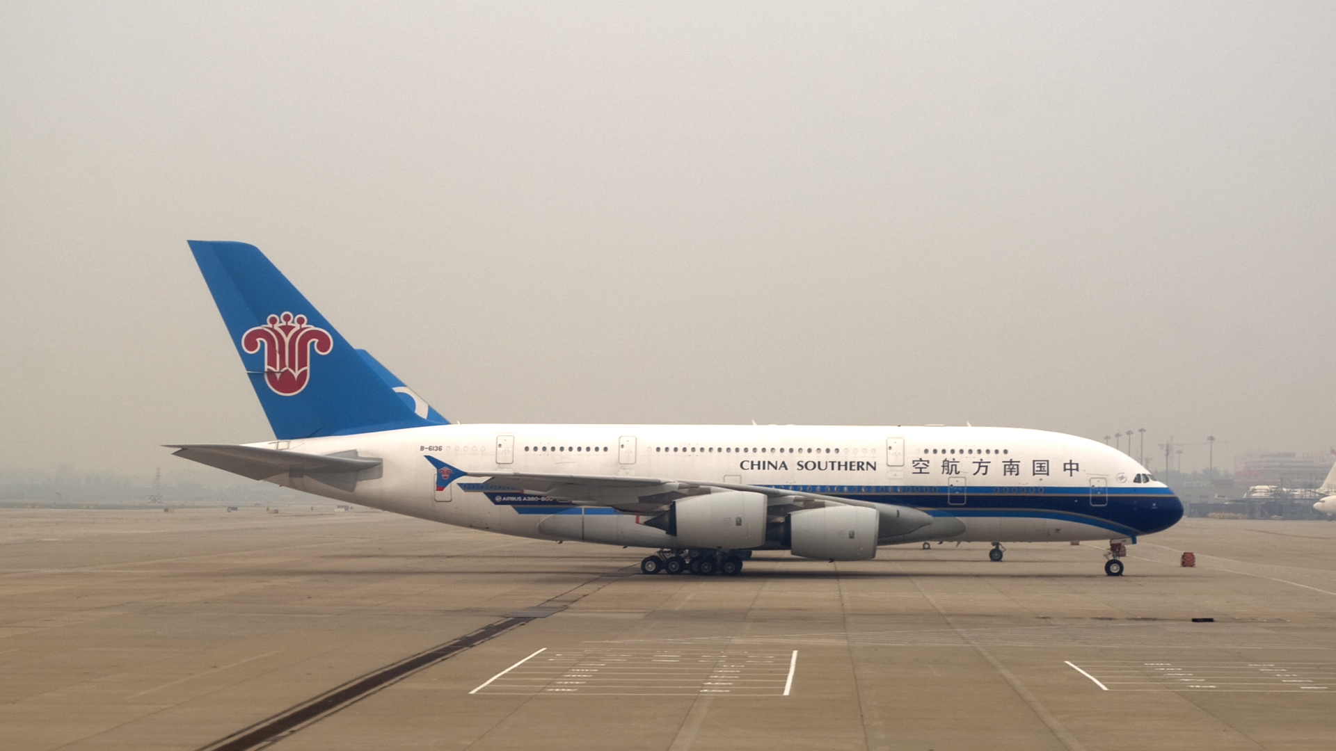 China Southern Airlines Airbus A380-800 (tail # B-6136) at Beijing International Airport (PEK).